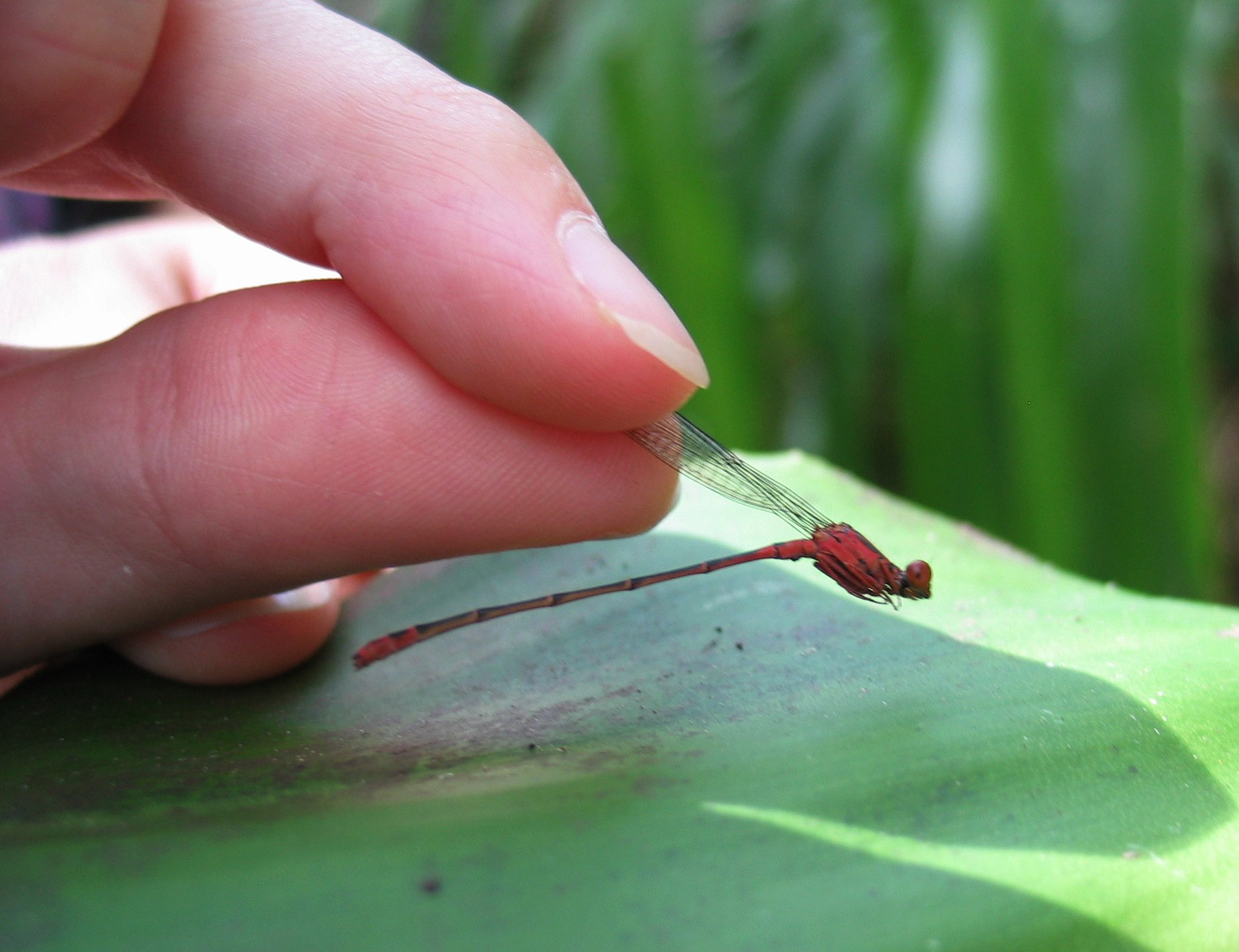 Orangeblack Hawaiian damselfly or Pinao ʻula Coenagrionidae Endemic to the Hawaiian Islands Oʻahu Male playing possum when captured. No pinao 'ula were harmed during this photo shoot.